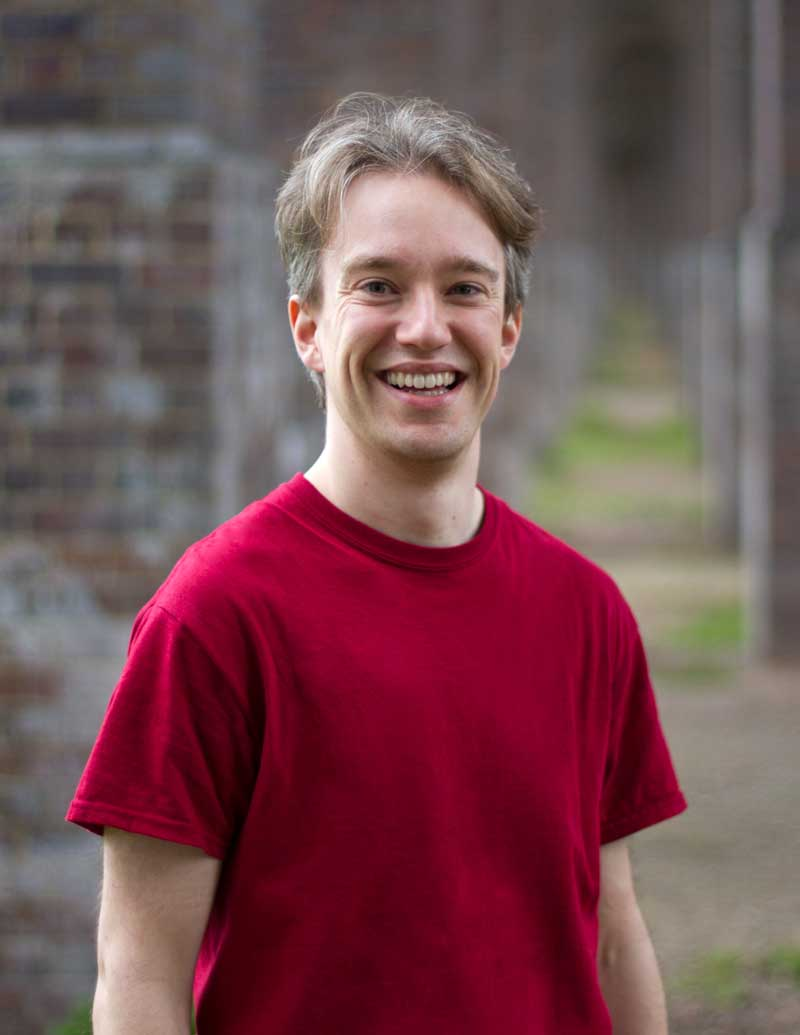 A portrait of Tom Scott